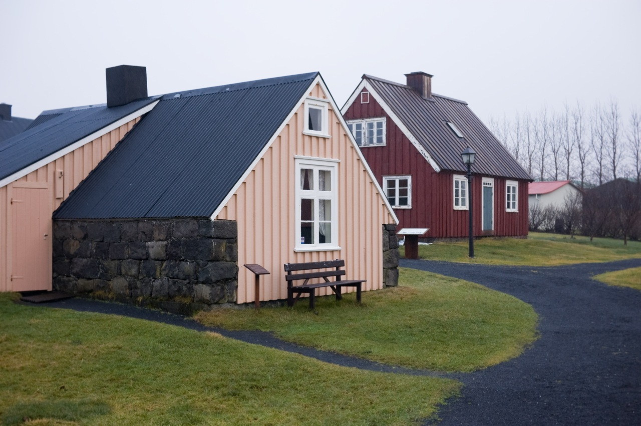 Hábær og Smiðshús. Árbæjarsafn. Both houses are from the 19th century and used to be in what is no central Reykjavík. Back then Hábær would probably have been thought to be close to Reykjavík's edge. Smiðshús, which translates as Smith's House, is also known as Hansenshús.